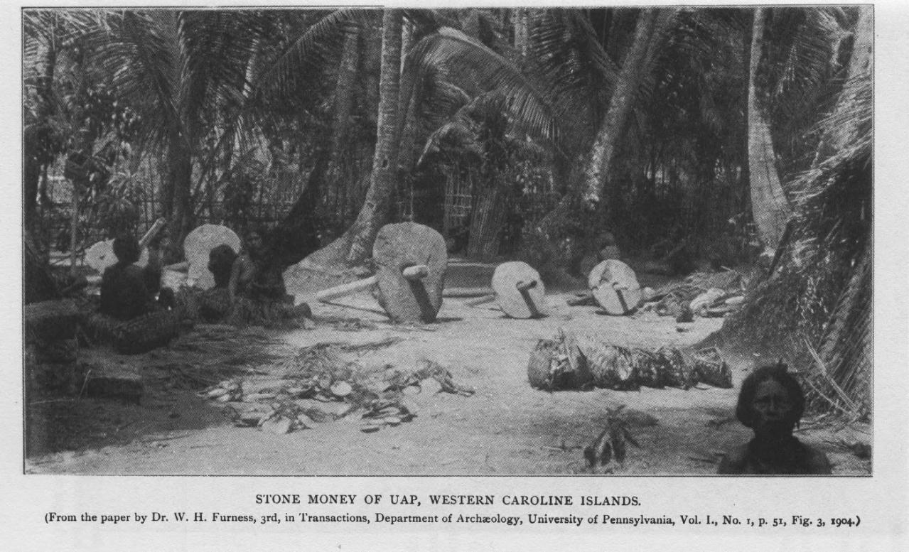 "Stone Money of Uap, Western Caroline Islands." Dr. Furness took this photograph during a 1903 stay on Uap (Yap), published it in a 1904 scholarly article, and allowed his sister to republish it in her 1906 book.